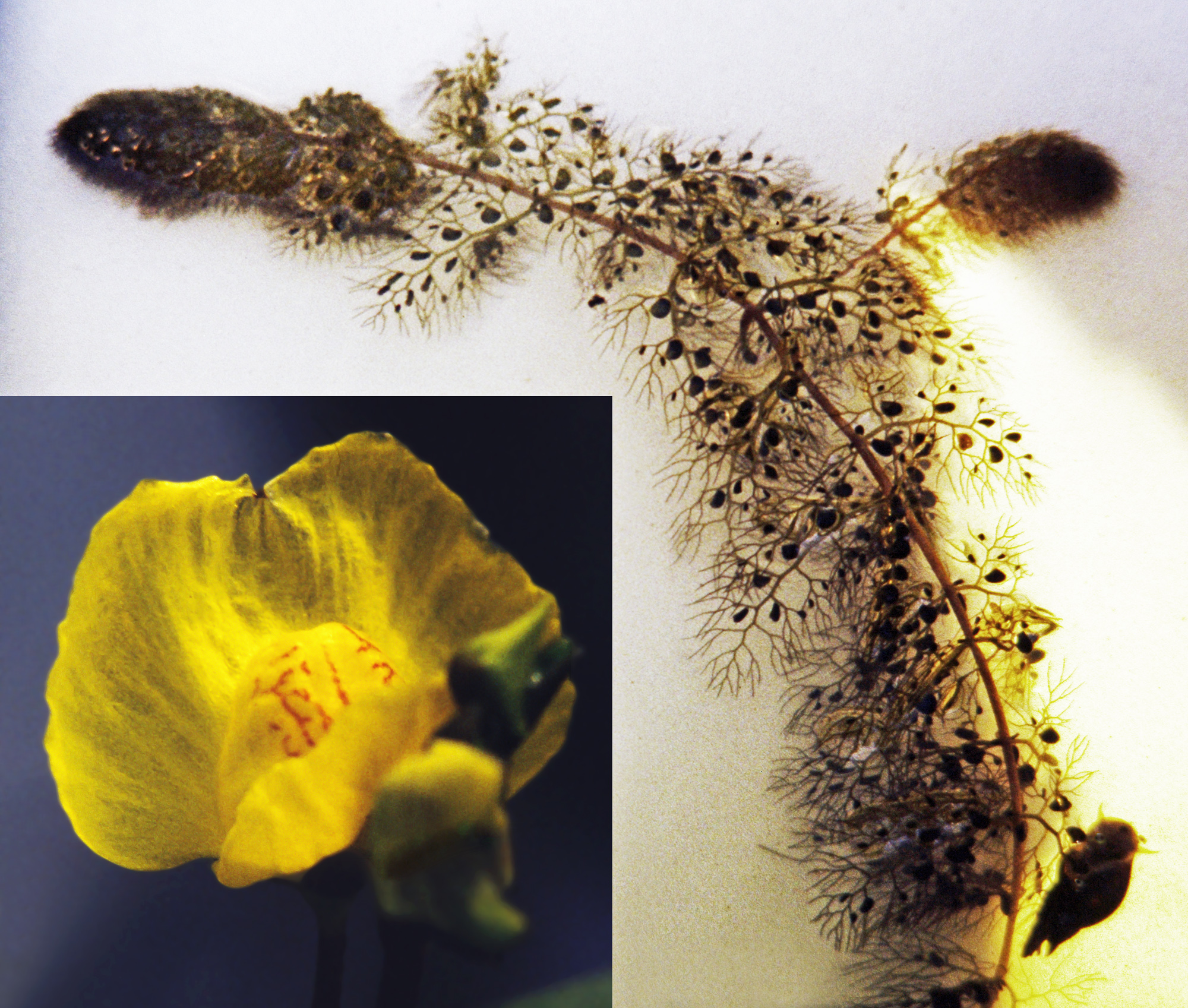 The submerged water plant Utricularia vulgaris, with strongly enlarged emerse flower.